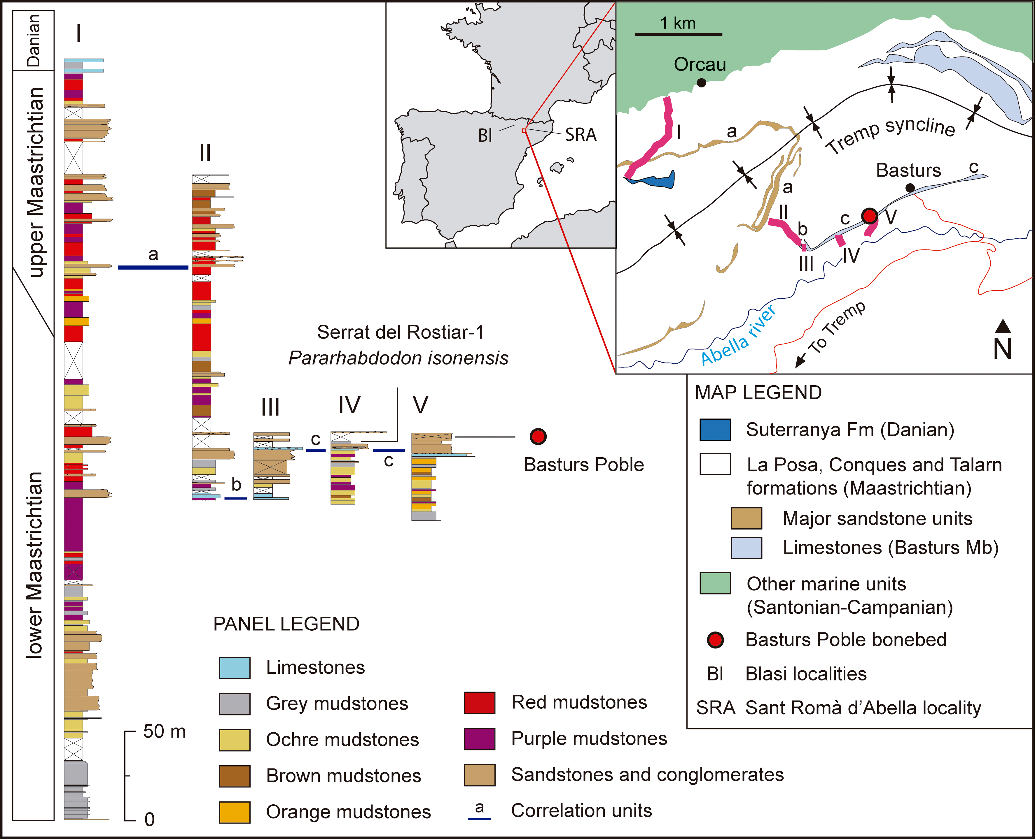 Stratigraphic correlation is modified from Blanco et al. [24], Riera et al. [25], Vila et al. [26] and Fondevilla et al. [32]. The geographical map is modified from Vila et al. [26], and the geological map is redrawn from Riera et al. [25]. Chronostratigraphic data are after Díez-Canseco et al. [31] and Fondevilla et al. [32]. The coeval site of Serrat del Rostiar-1 is also represented in the correlation panel. The locations of Blasi-1,-3 (type localities of Blasisaurus canudoi and Arenysaurus ardevoli, respectively) and Sant Romà d’Abella (type locality of Pararhabdodon isonensis) are shown in the geographical map.